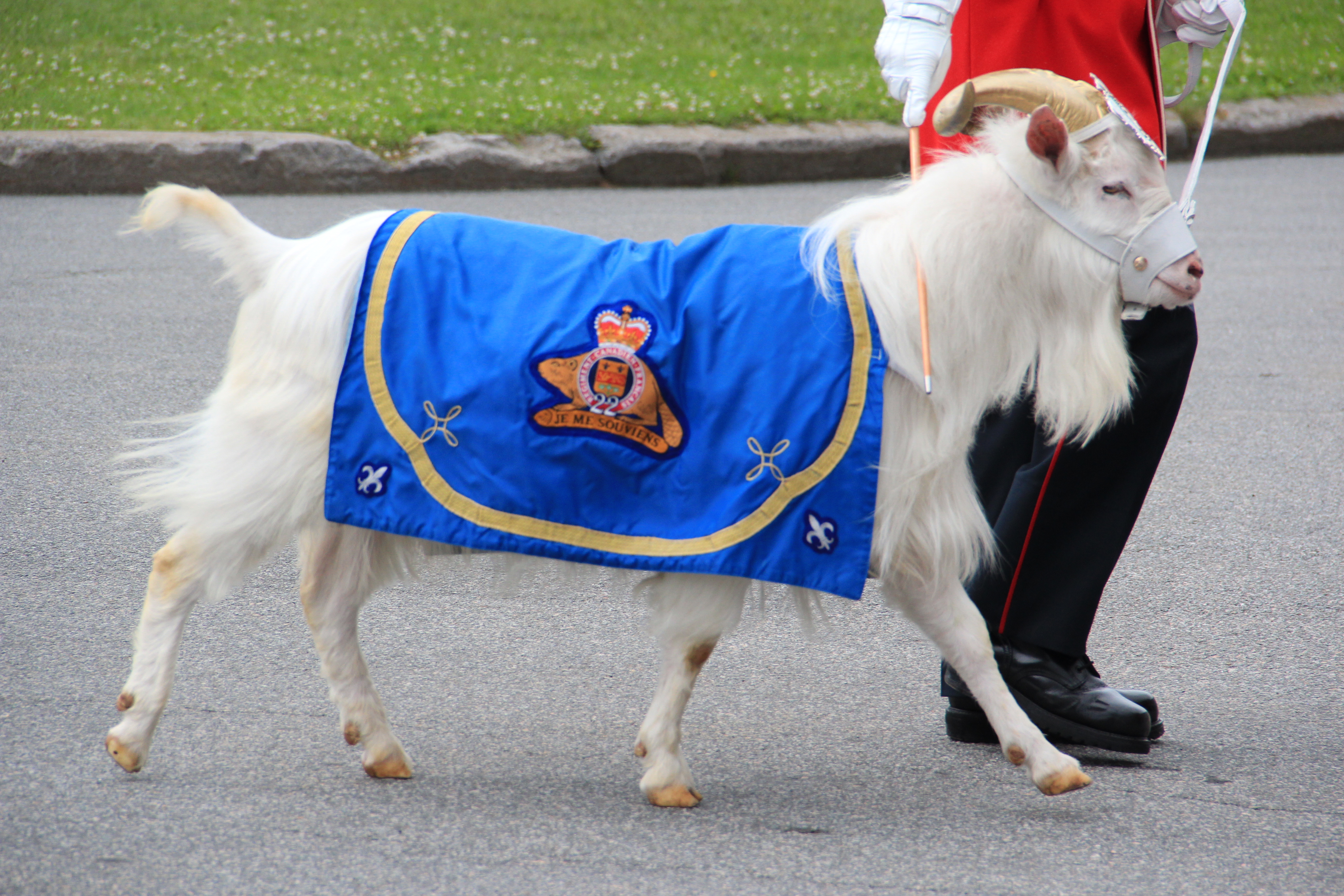 Baptiste (pronounced "Batisse"), the goat mascot of the Royal 22nd Regiment.